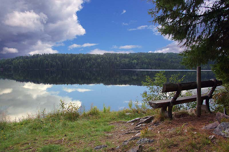 View from Kampesetervika at the eastern end of the lake Trehørningen in Hole community, Norway